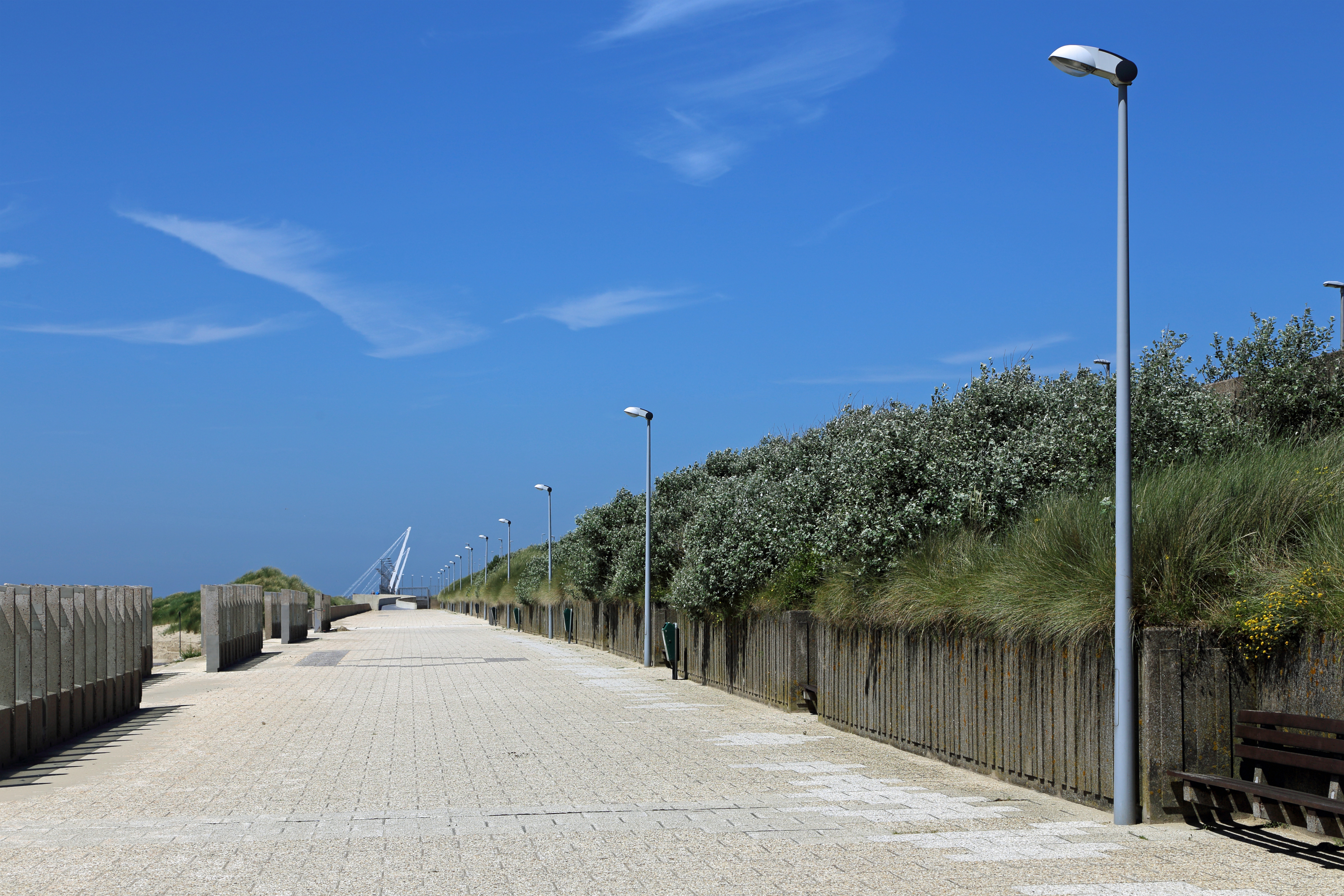 Zeebrugge (Bruges, Belgium): St George's Day-wandeling (St George's Day Promenade)